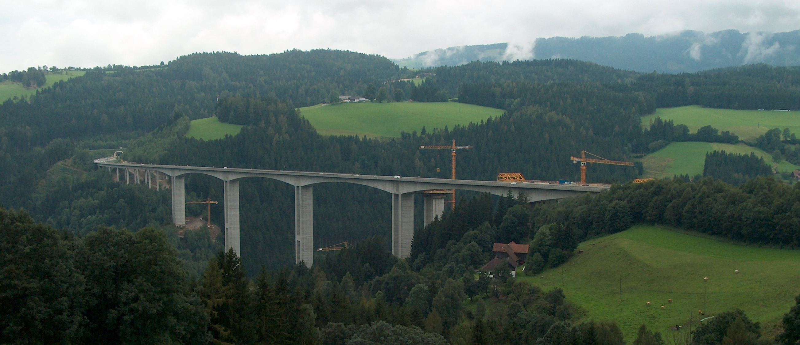 This picture shows the Talübergang Lavant, a motorway bridge in Carinthia, Austria at the A2 Südautobahn during construction of the second bridge.